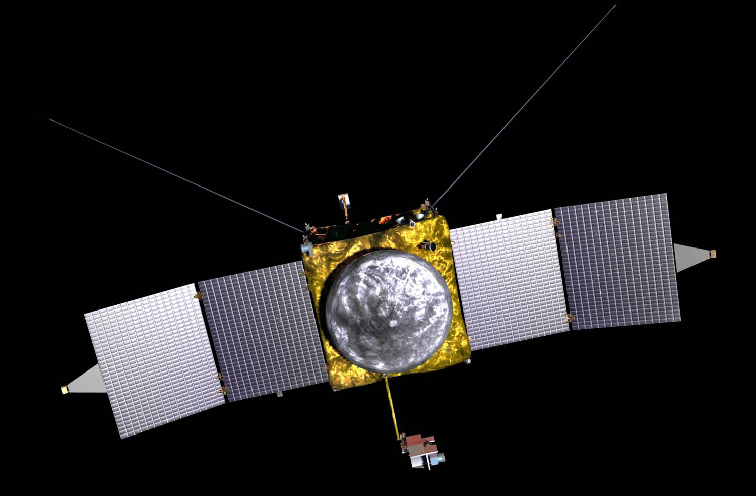 Artist's Concept of MAVEN, set to launch in 2013.